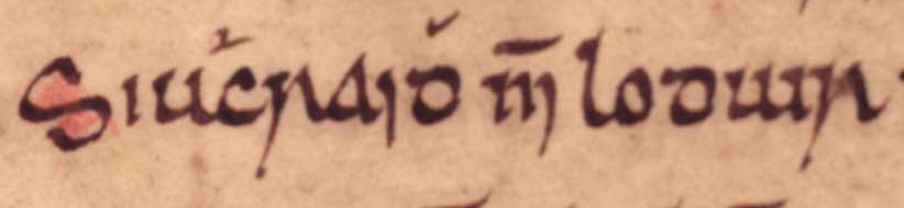 An excerpt from folio 36v of Oxford Bodleian Library MS Rawlinson B 489 (the Annals of Ulster). The excerpt concerns Sigurðr Hlǫðvisson, Earl of Orkney (died 1014).